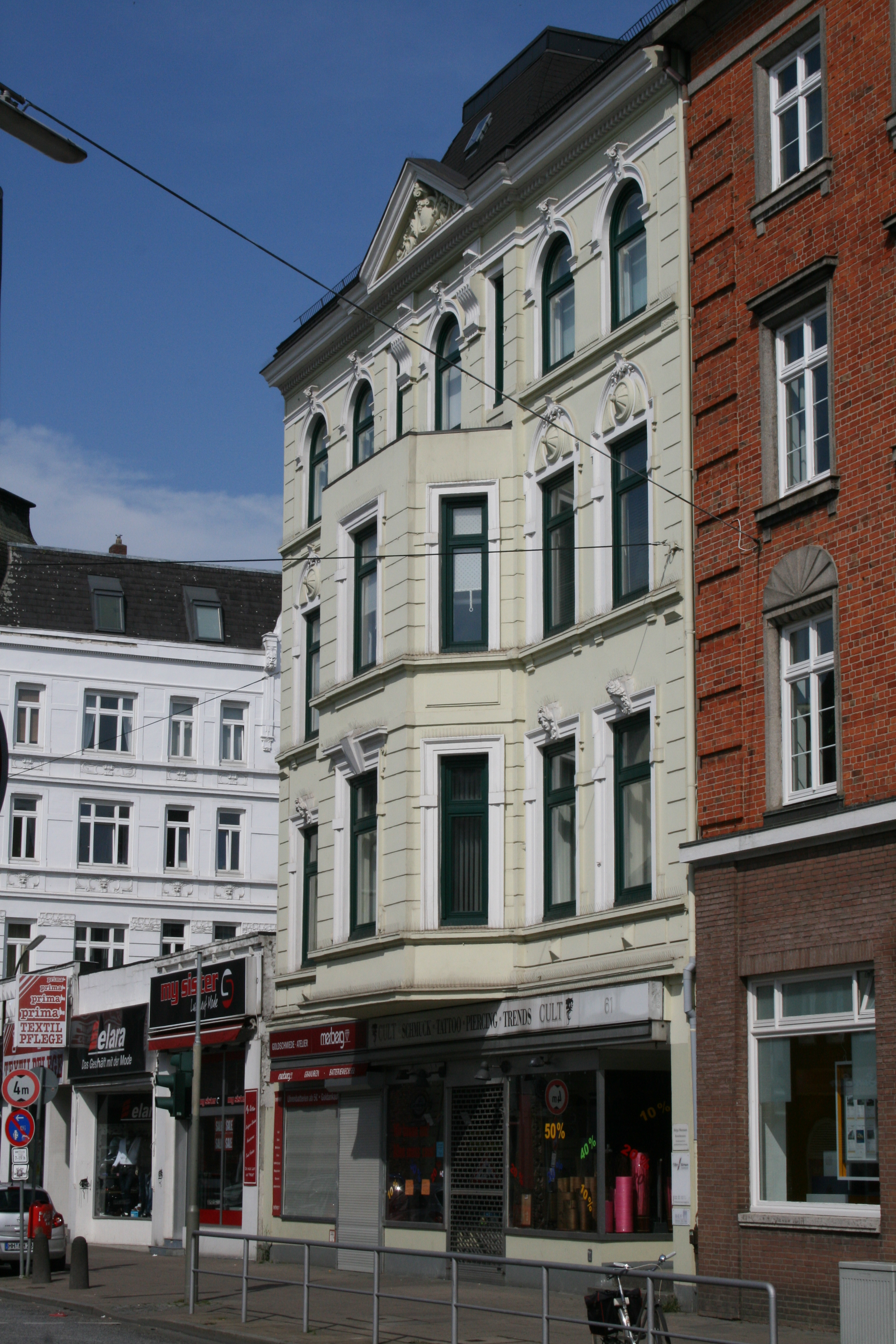 House Alte Hostenstraße 61 in Hamburg-Bergedorf. Ernst und Ellie Tichauer, victims of the Holocaust, lived in this house. Two Stolpersteine are placed in front of the house.